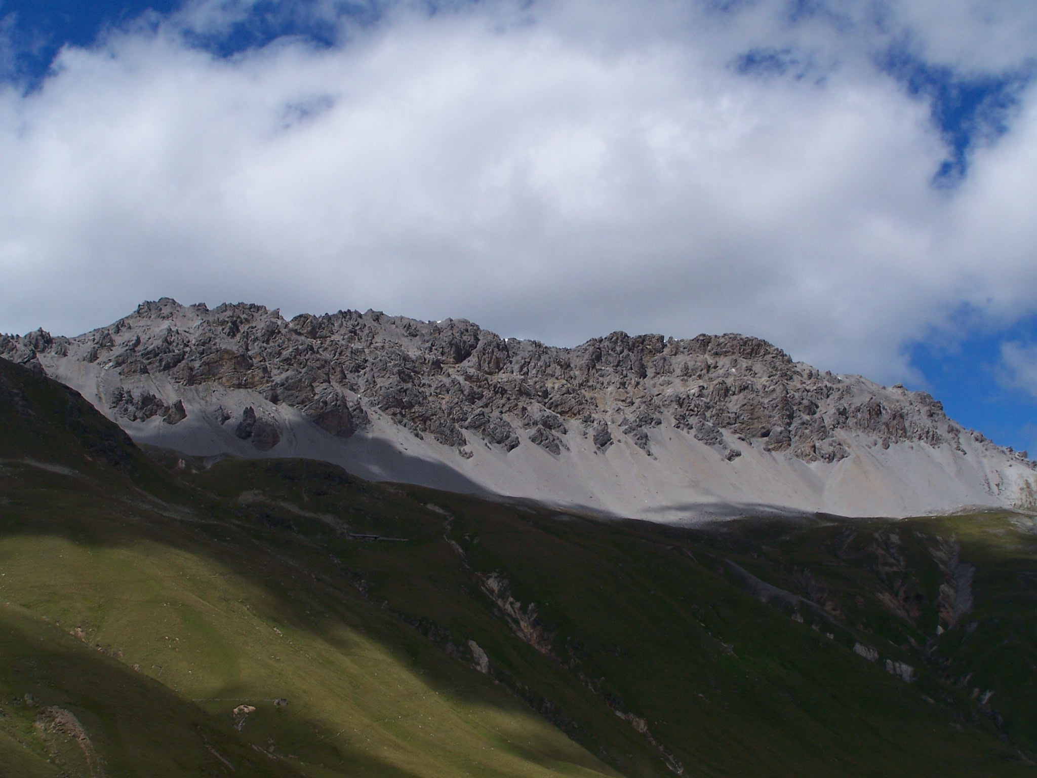 Piz Umbrail, Val Braulio, Valtellina, Alps, Italy